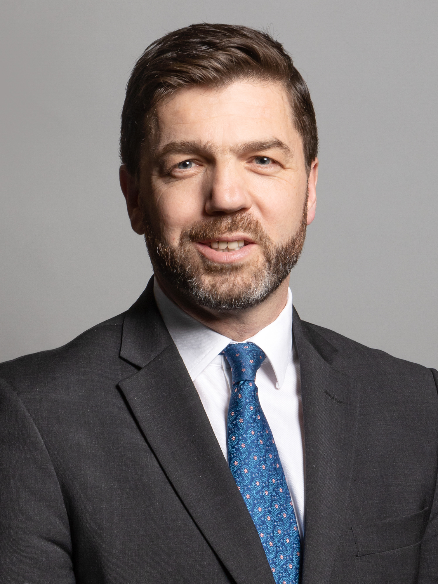 Official portrait of Rt Hon Stephen Crabb MP 3×4 portrait of Stephen Crabb